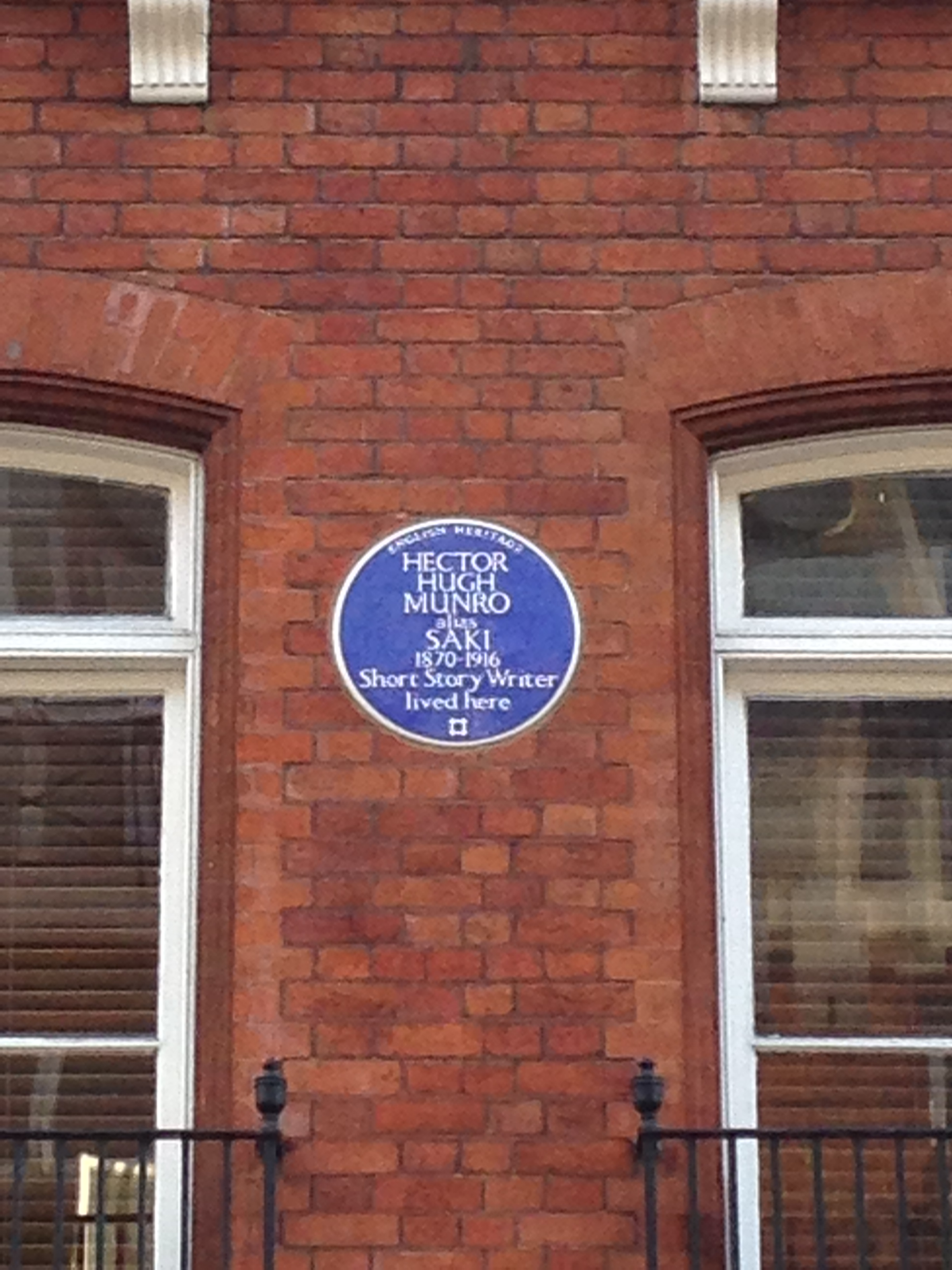 The English Heritage blue plaque for Hector Hugh Munro aka 'Saki' at 97 Mortimer Street, Fitzrovia, London W1W 7SU in the City of Westminster.